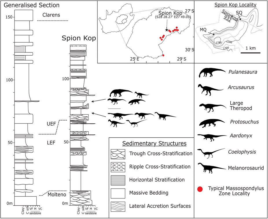 Stratigraphic succession of Spion Kop Farm, illustrating the faunal assemblages recovered from the upper Elliot Formation as preserved on the farm. SQ, ‘Sauropod [Pulanesaura] Quarry’; MQ, ‘Marc’s [Aardonyx] Quarry’. All cartographic information was recorded by JN and reproduced using Inkscape (vers. 0.91). All dinosaur silhouettes were drawn by the authors except for the one next to Arcusaurus, which is licensed under the CC-BY-SA GNU Free Documentation License and is attributed to Arthur Weasley. The original image and use policy for the image is available here